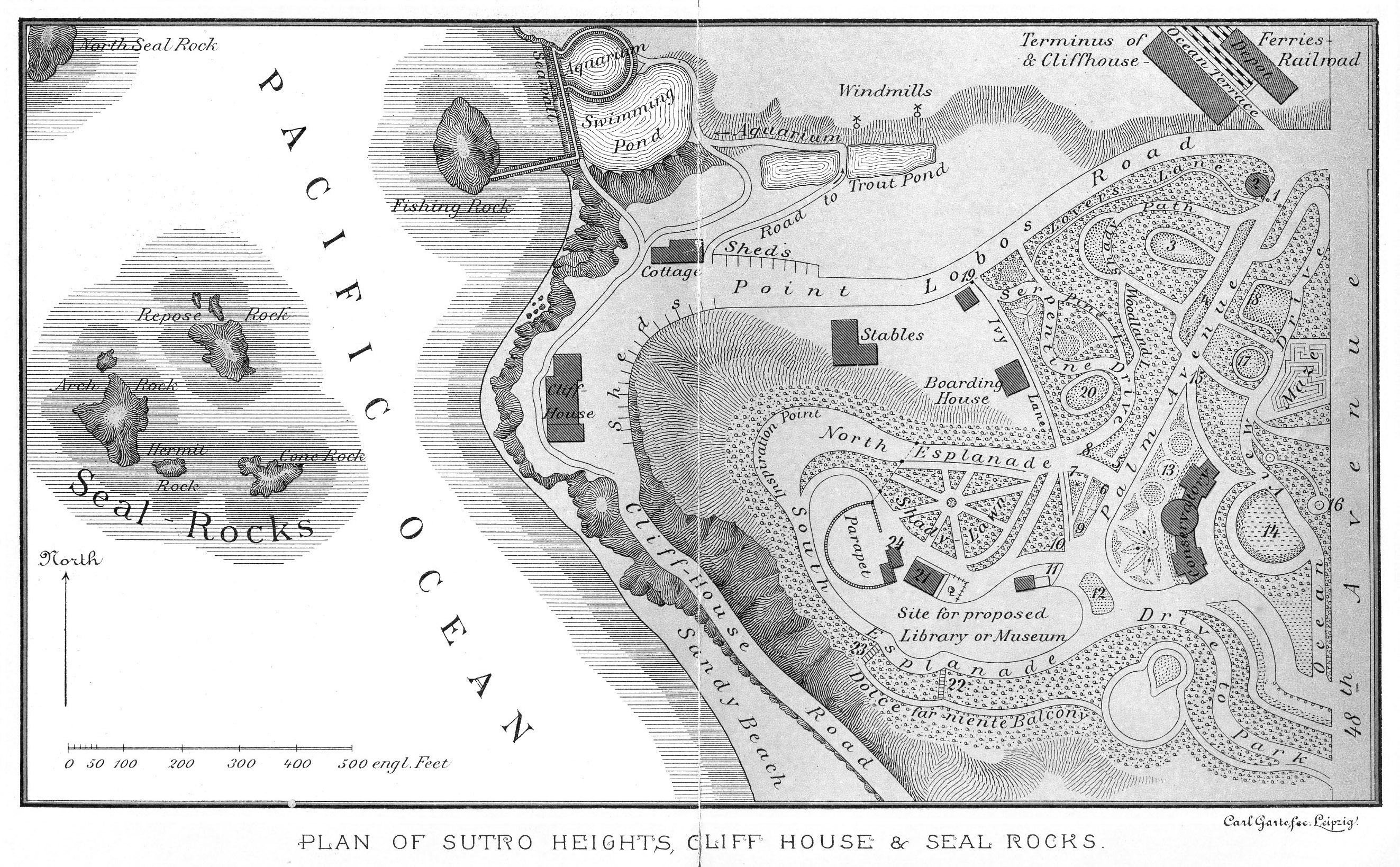 Map of the Sutro Heights area (Plan of Sutro Heights, Cliff House, and Seal Rocks) by Carl Garte, Leipzig (1890)